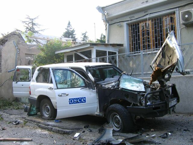 August 2008. Tskhinval after Georgian artillery bombardment